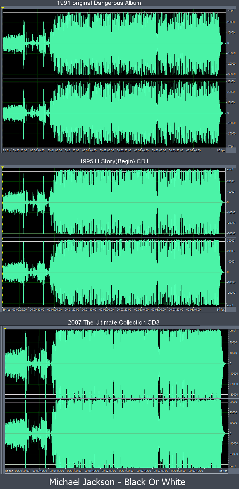 Michael Jackson Black or White CD Loudness